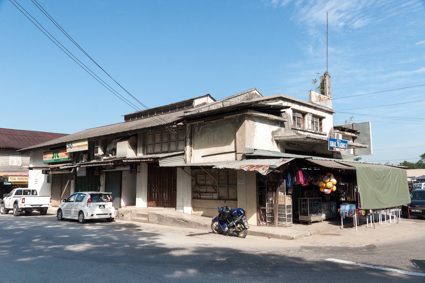 Rivers of Sabah, Malaysia: Old Colonial Shop Row